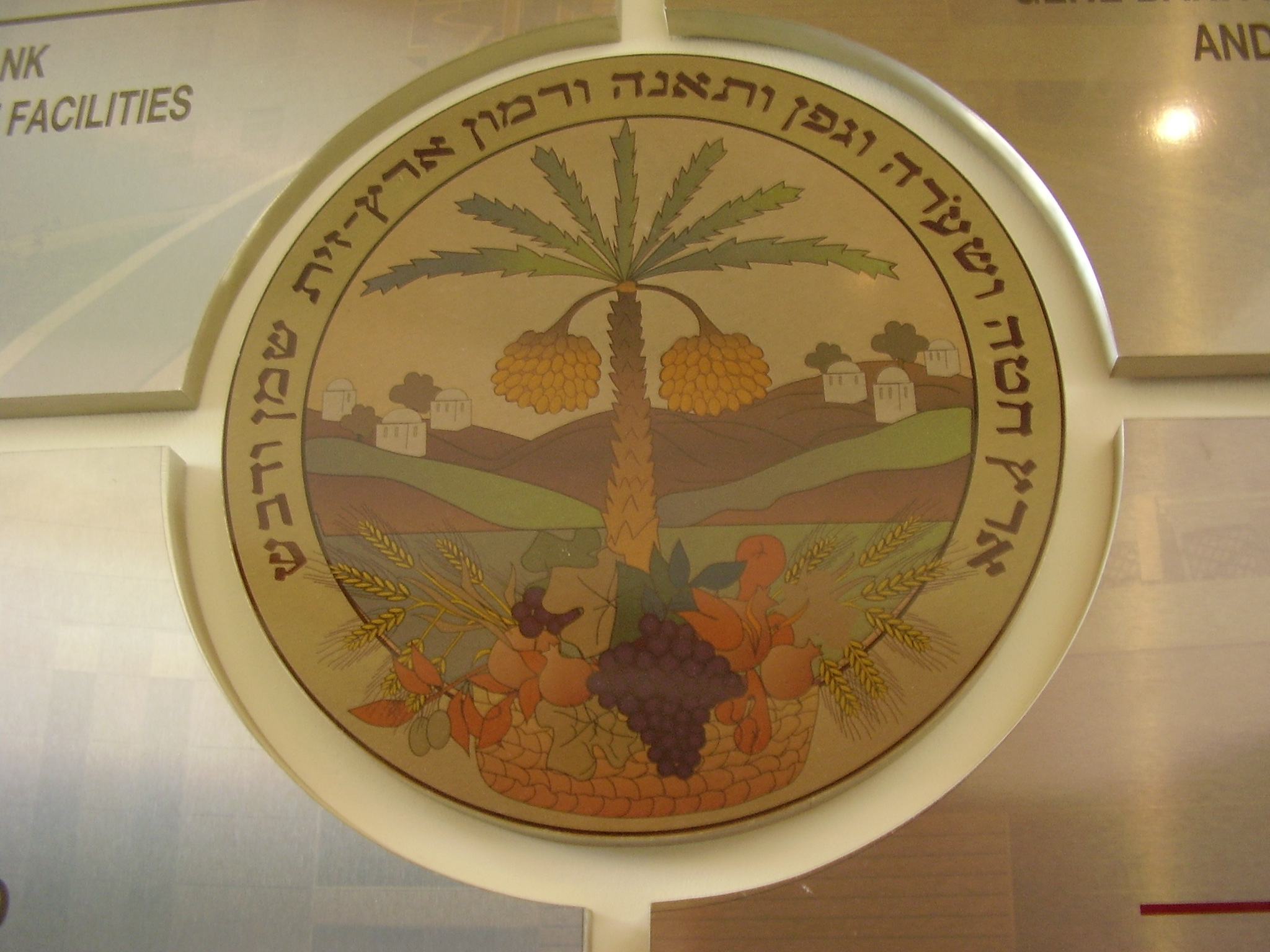 the logo of vulcani institute